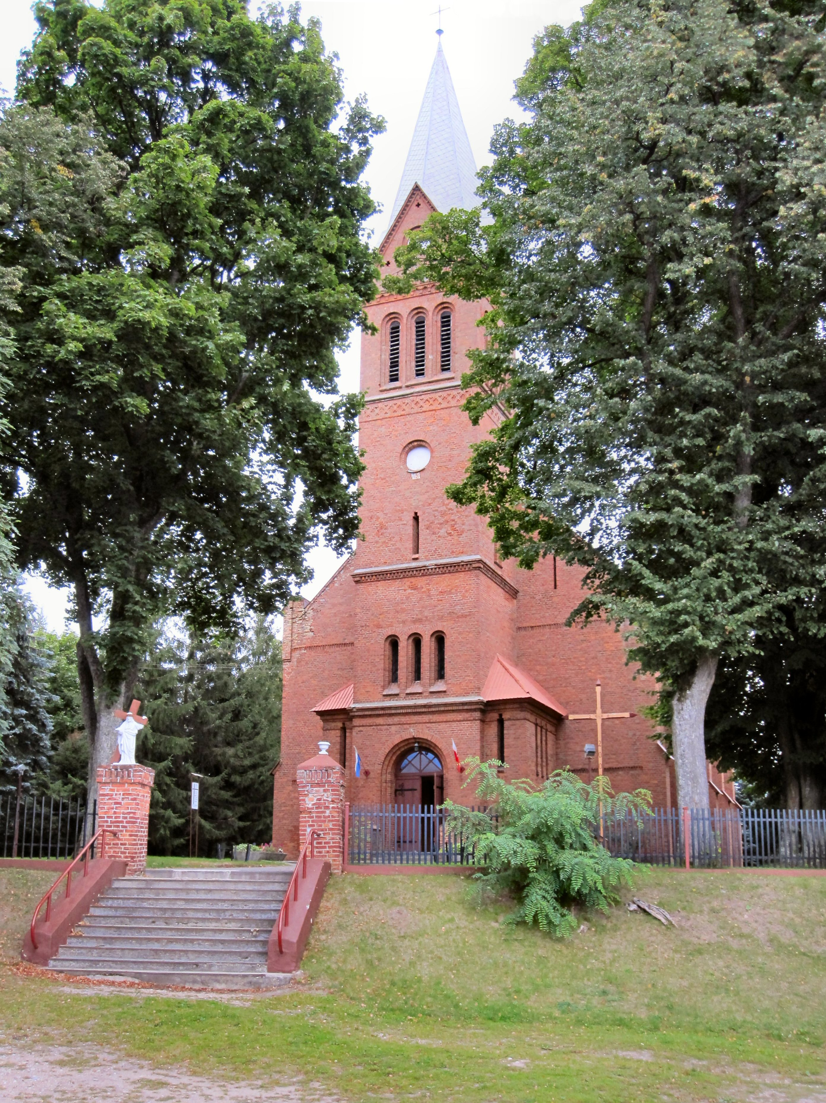 Our Lady Help of Christians church in Klusy